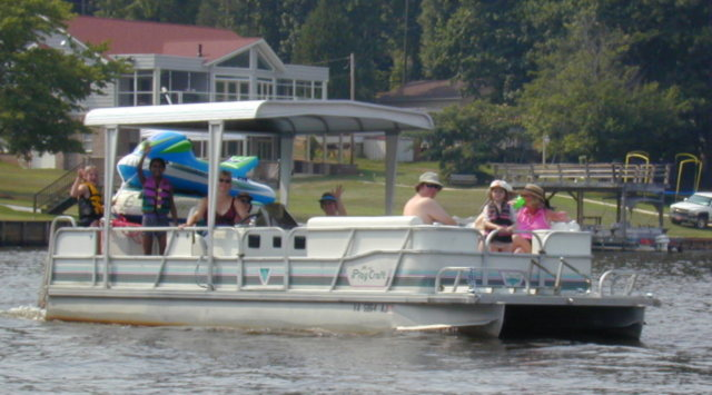 A pontoon boat approaches on Lake Gaston, VA-NC with choir and friends from Genesis UMC of Cary, North Carolina. Two rafts sit on the back of the boat above the engine. Photo by James E. Scarborough July 10, en:2004.